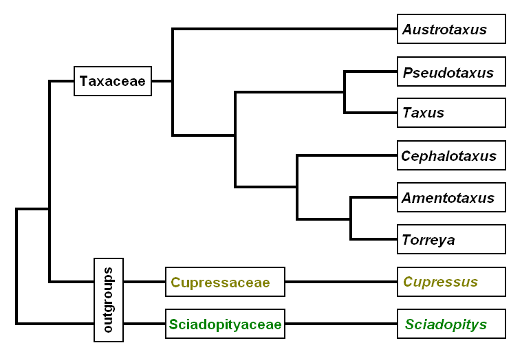 Classification of Taxaceae Sources: Anderson, E. & Owens, J. N. (2003). Analysing the reproductive biology of Taxus: should it be included in Coniferales? Acta Hort. 615: 233-234. Chase, M. W. et al. (1993). Phylogenetics of seed plants, an analysis of nucleotide sequences from the plastid gene rbcL. Ann. Missouri Bot. Gard. 80: 528-580. Ghimire, B. & Heo, K. (2014). Cladistic analysis of Taxaceae s. l. Pl. Syst. Evol. 300: 217–223. Price, R. A. (2003). Generic and familial relationships of the Taxaceae from rbcL and matK sequence comparisons. Acta Hort. 615: 235-237. Christenhusz, M. J. M., Reveal, J., Farjon, A., Gardner, M. F., Mill, R. R., & Chase, M. W. (2011). A new classification and linear sequence of extant gymnosperms. Phytotaxa 19: 55–70.